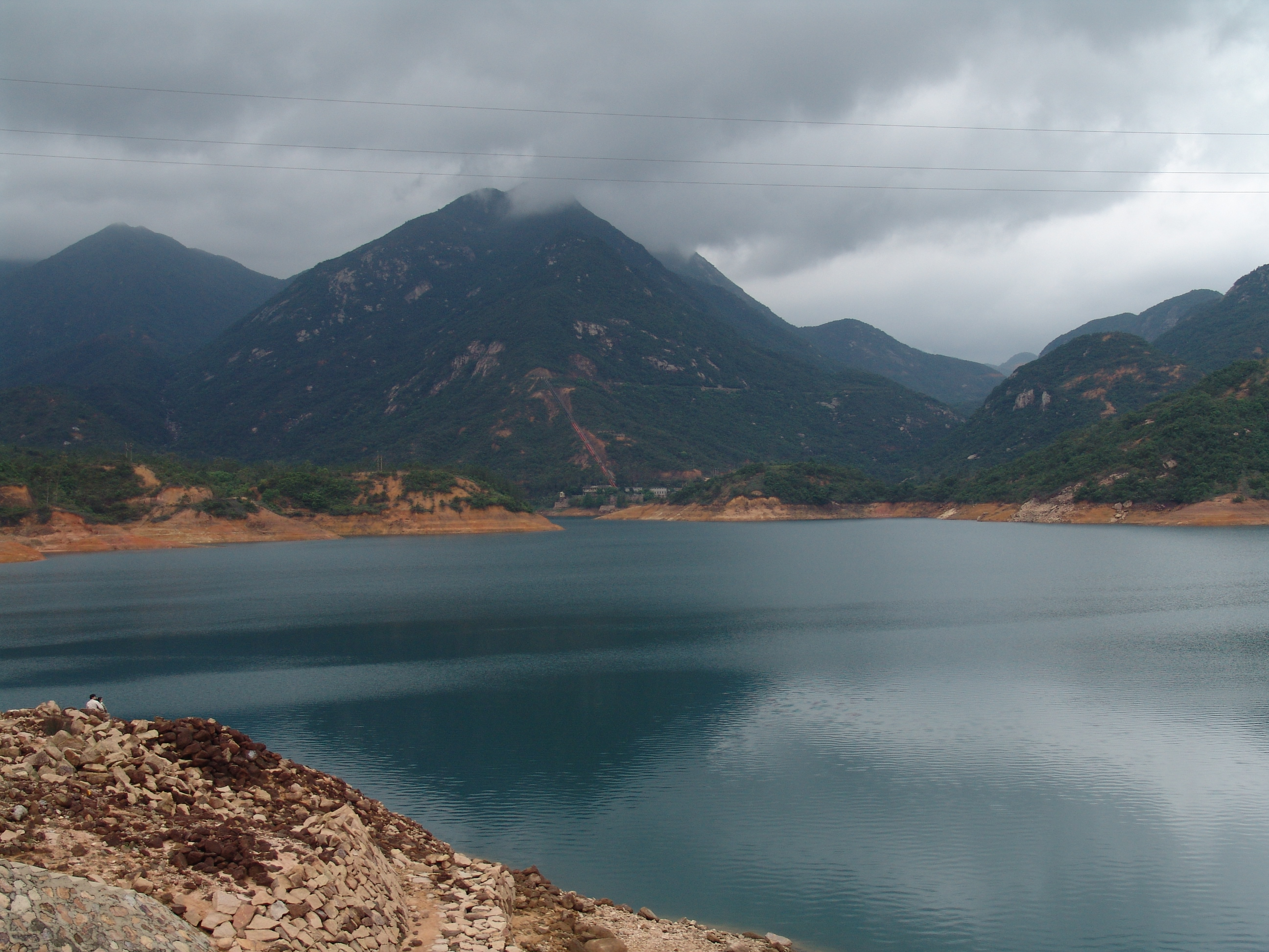 Gudou Mountain